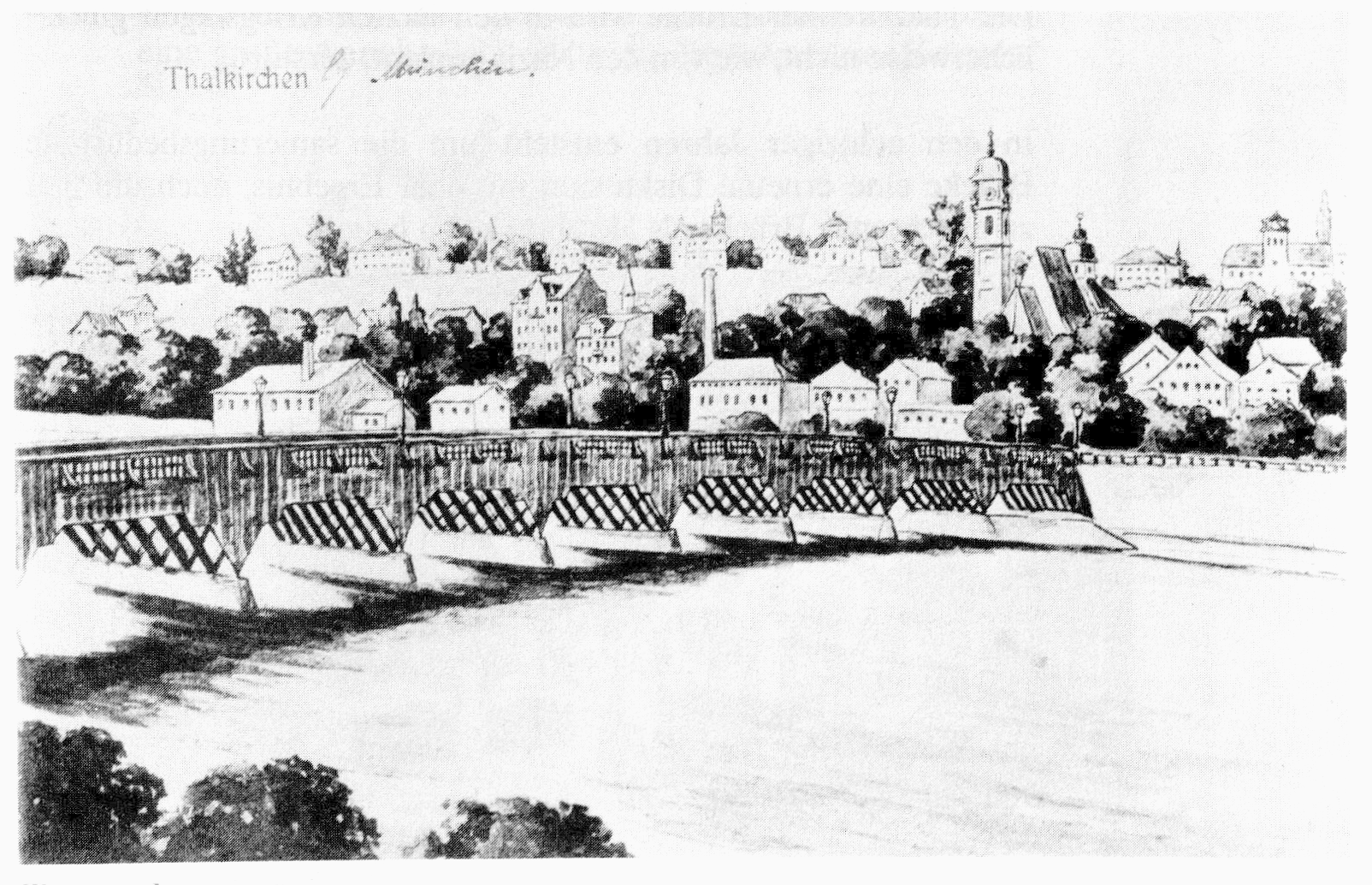 old depiction of the Thalkirchner Brücke, Thalkirchen, Munich, Germany in 1910